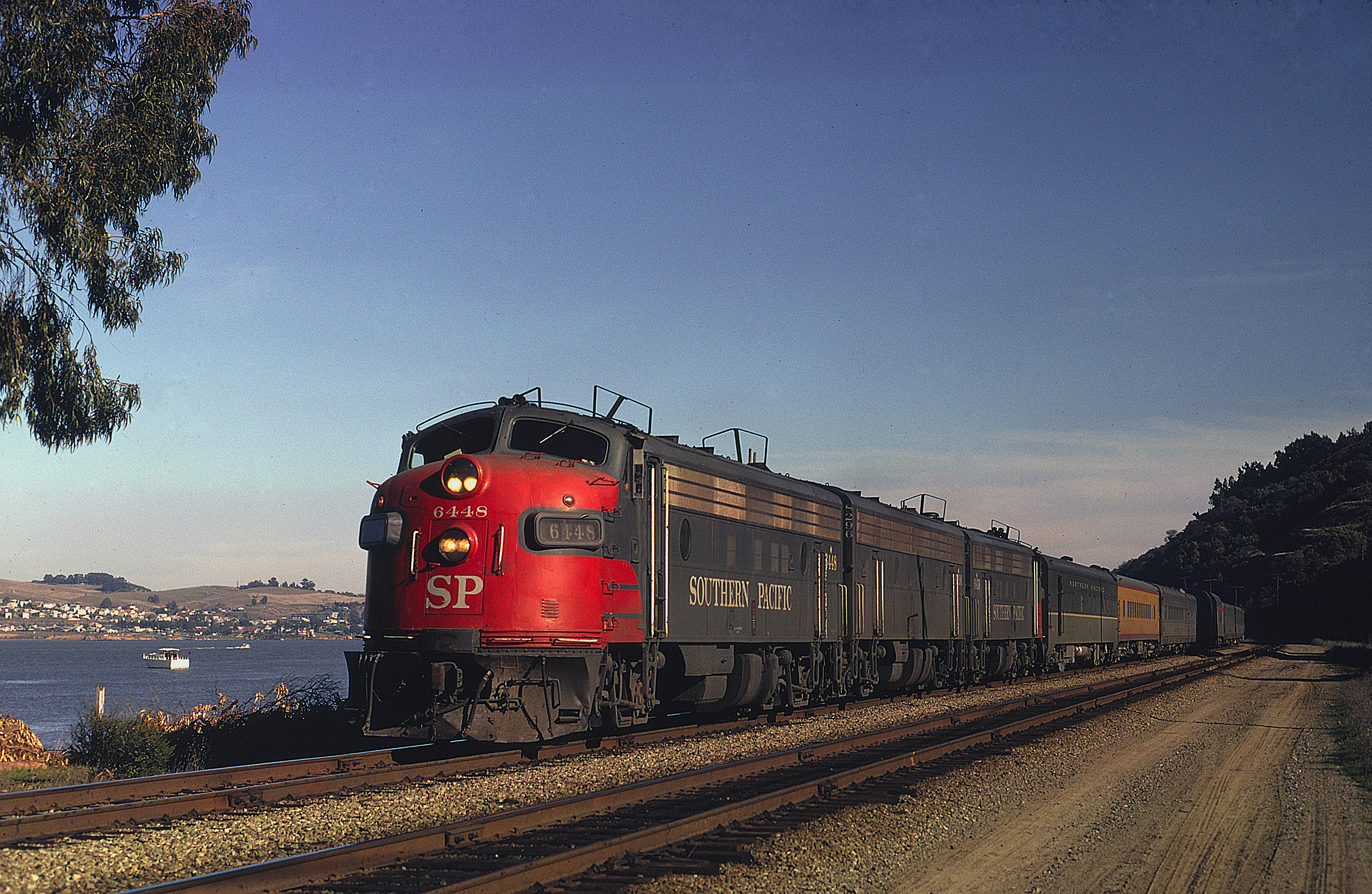 Ex-Southern Pacific locomotive #6448 leads the westbound Amtrak California Zephyr - by then unnamed, and soon to be renamed City of San Francisco - at Eckley in July 1971